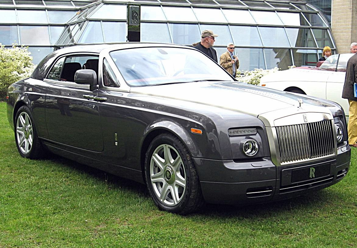 Subject: Rolls-Royce Phantom Coupé Author:Luc106 Date:April 27th, 2008 Event:Concorso d’Eleganza”Villa d’Este” 2008 Place/Country: Cernobbio (CO), Italy I release all rights in the public domain.